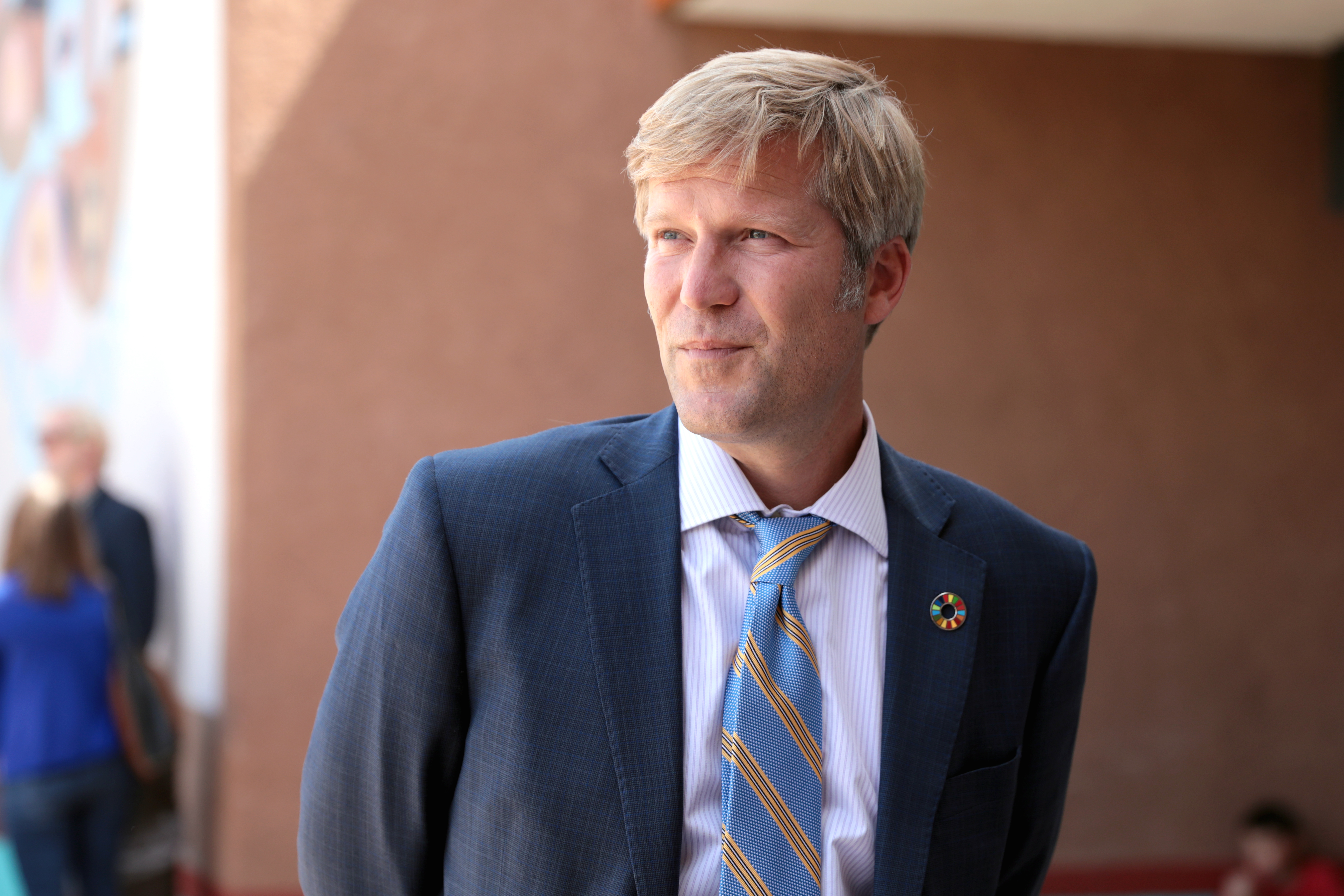 Mayor of Albuquerque Tim Keller speaking with attendees at a press conference hosted by Beyond Carbon at the Indian Pueblo Cultural Center in Albuquerque, New Mexico.